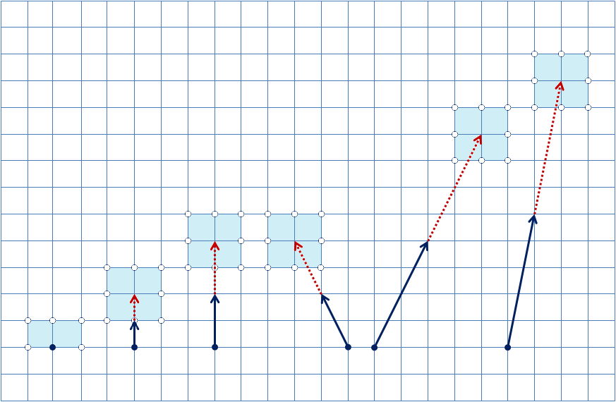 reference point for racetrack gaming